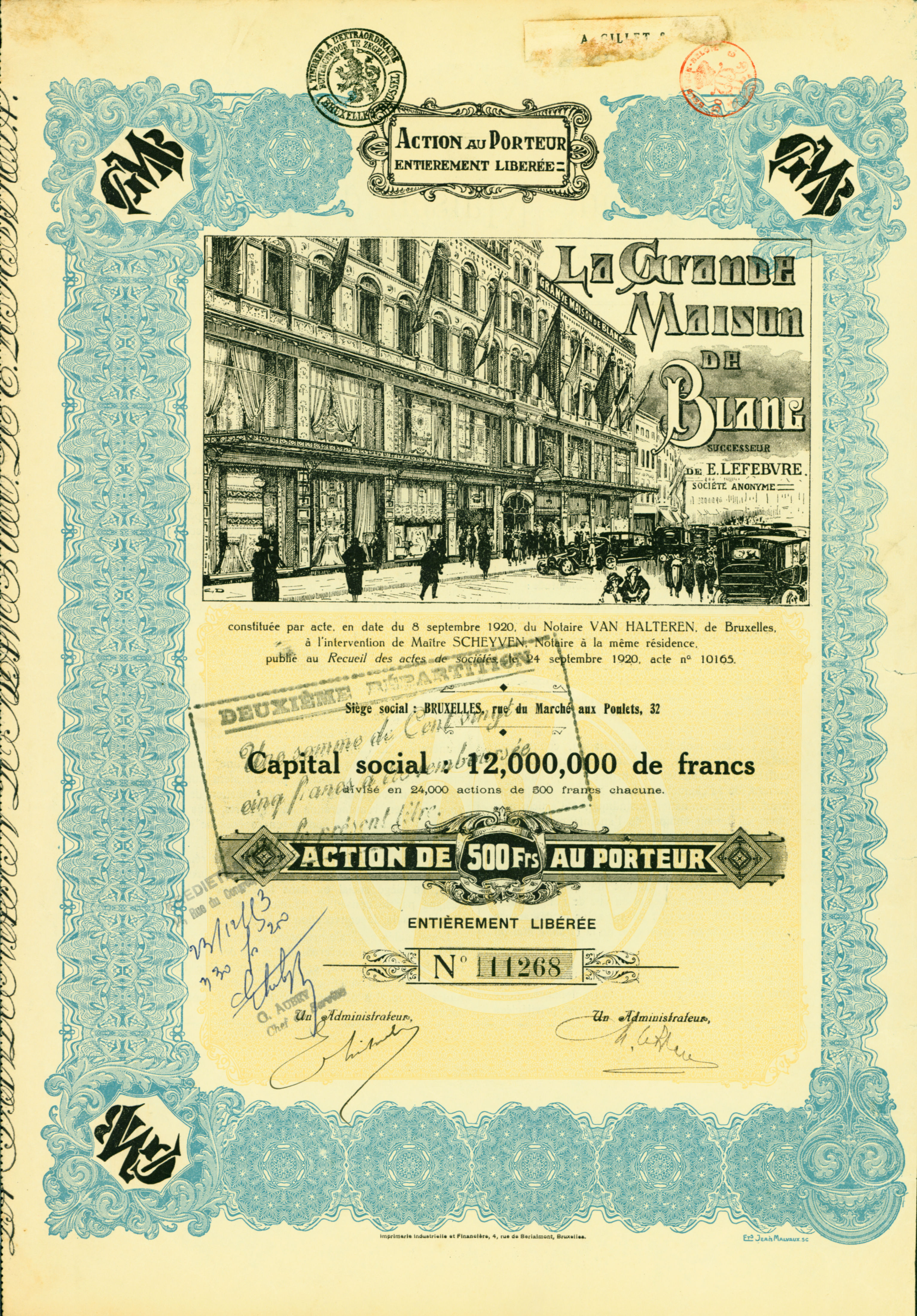 Share of the Grande Maison de Blanc, issued 24. September 1920